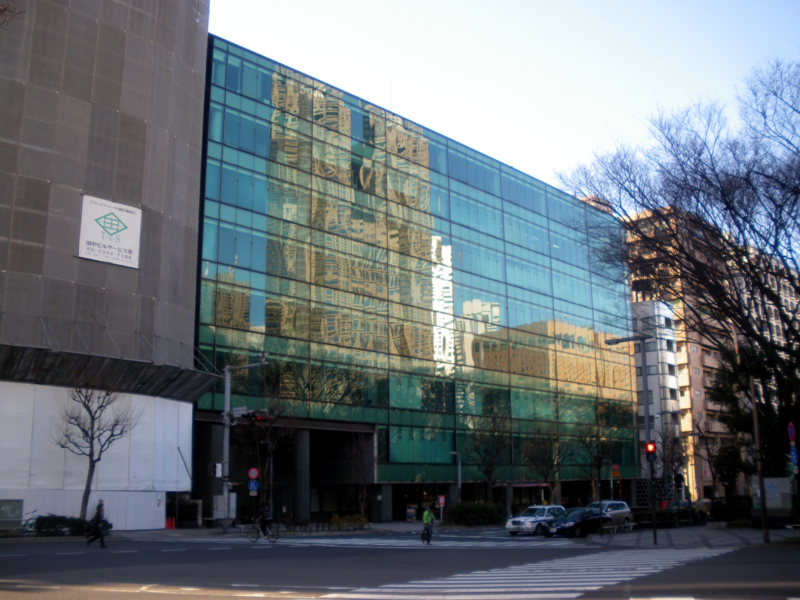 photo of Sumitomo Fudosan Nishishinjuku building No4,a office building in Shinjuku,Tokyo,Japan.